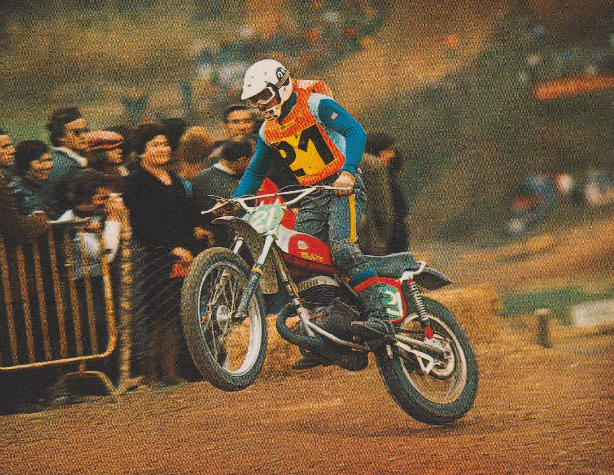 Domiingo Gris on his works Bultaco Pursang MK6 during the 1973 Spanish Motocross Grand Prix of 250cc, held at the Circuit del Vallès on April 8